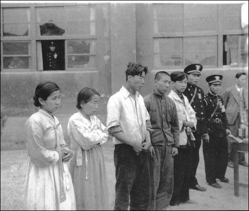 Attempted assassination of Chang Taek-sang